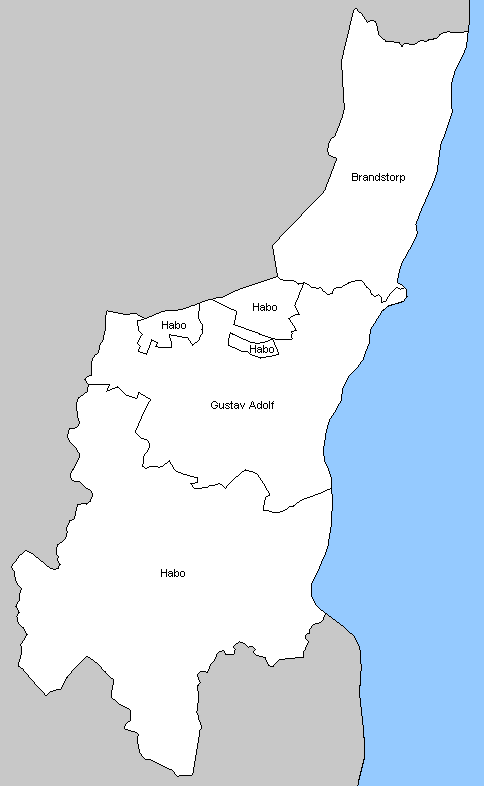 Parishes in Habo municipality